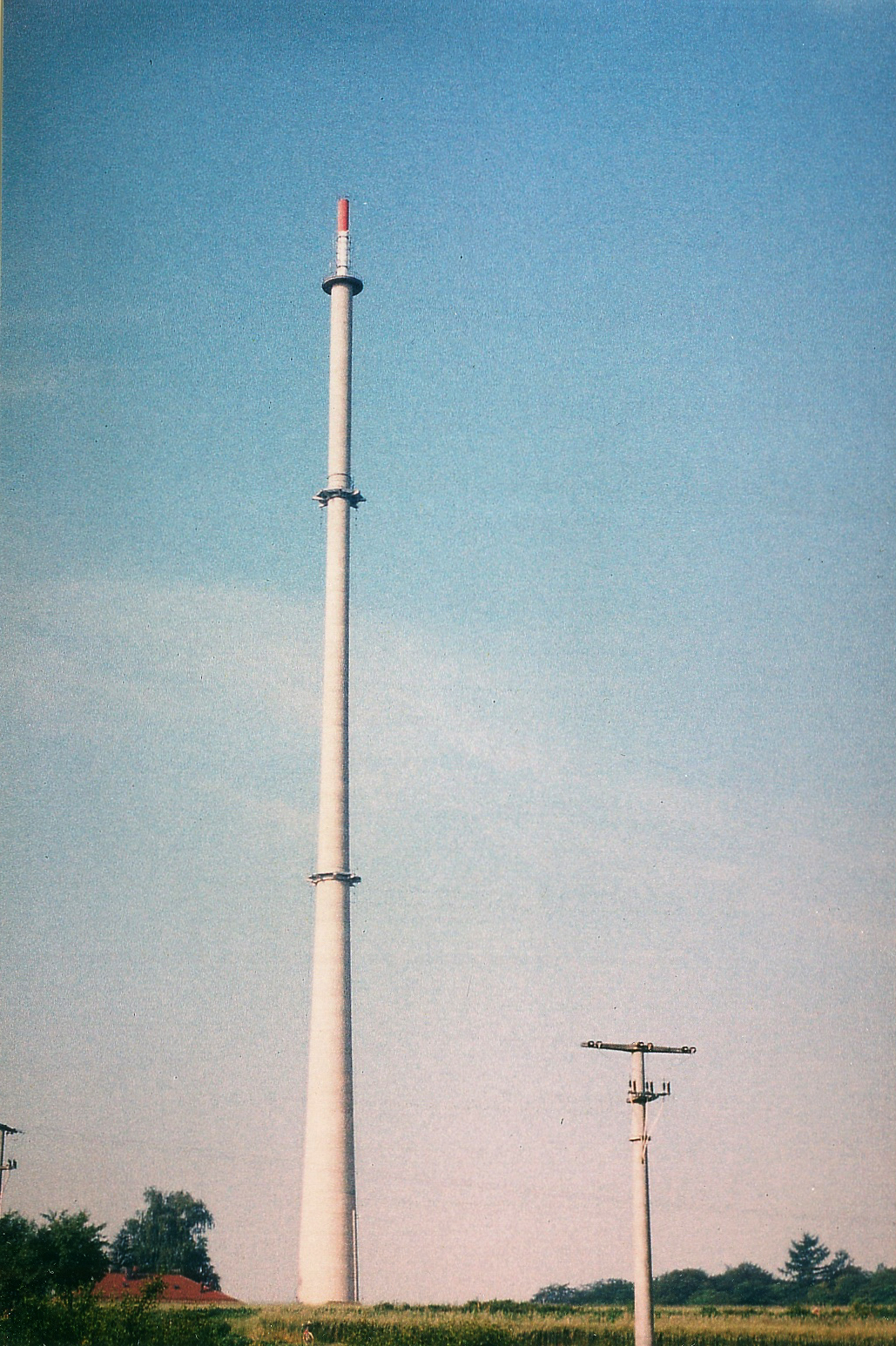 Old transmission tower of Löffelstelzen transmitter